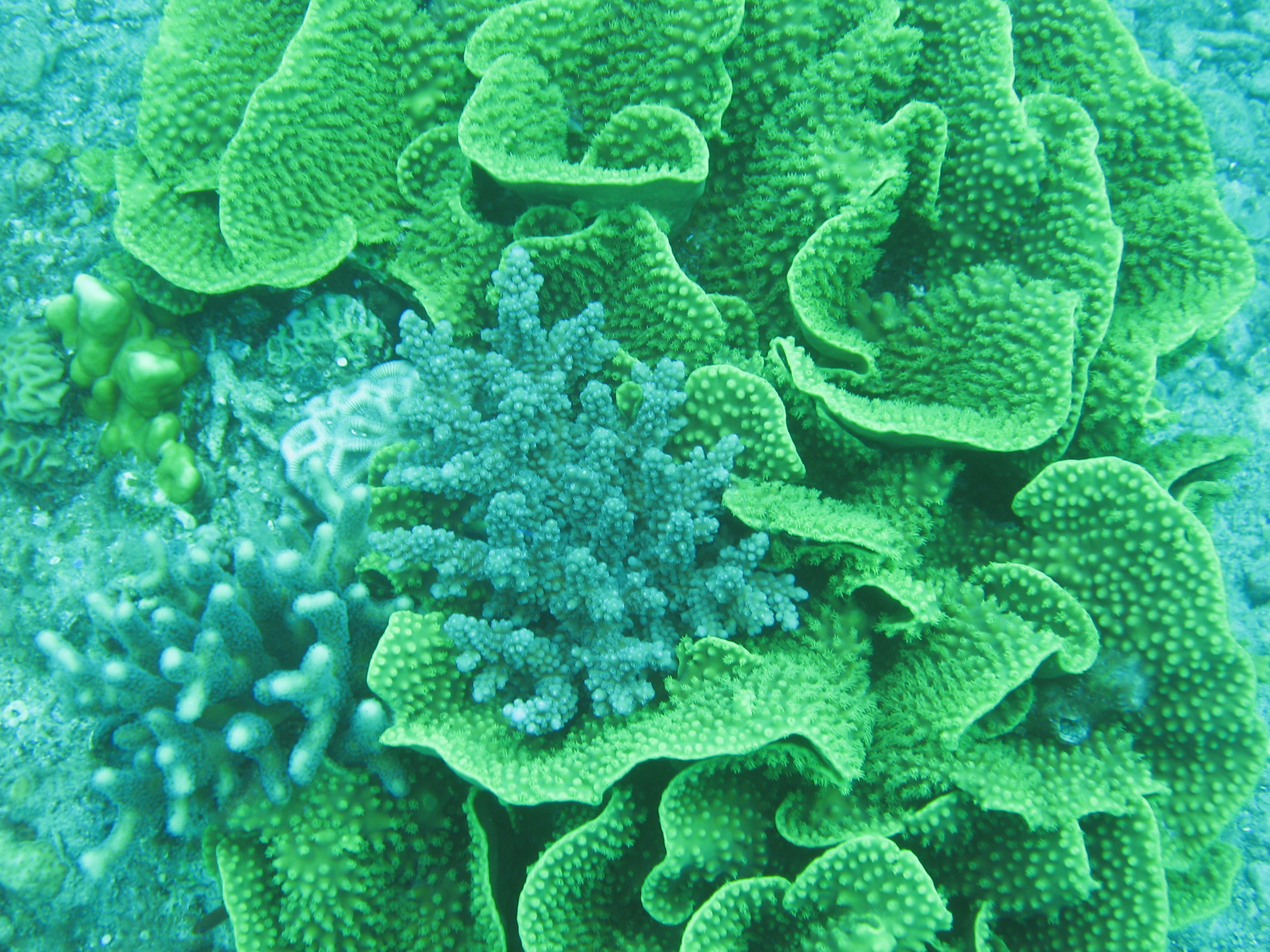 Turbinaria in the red sea